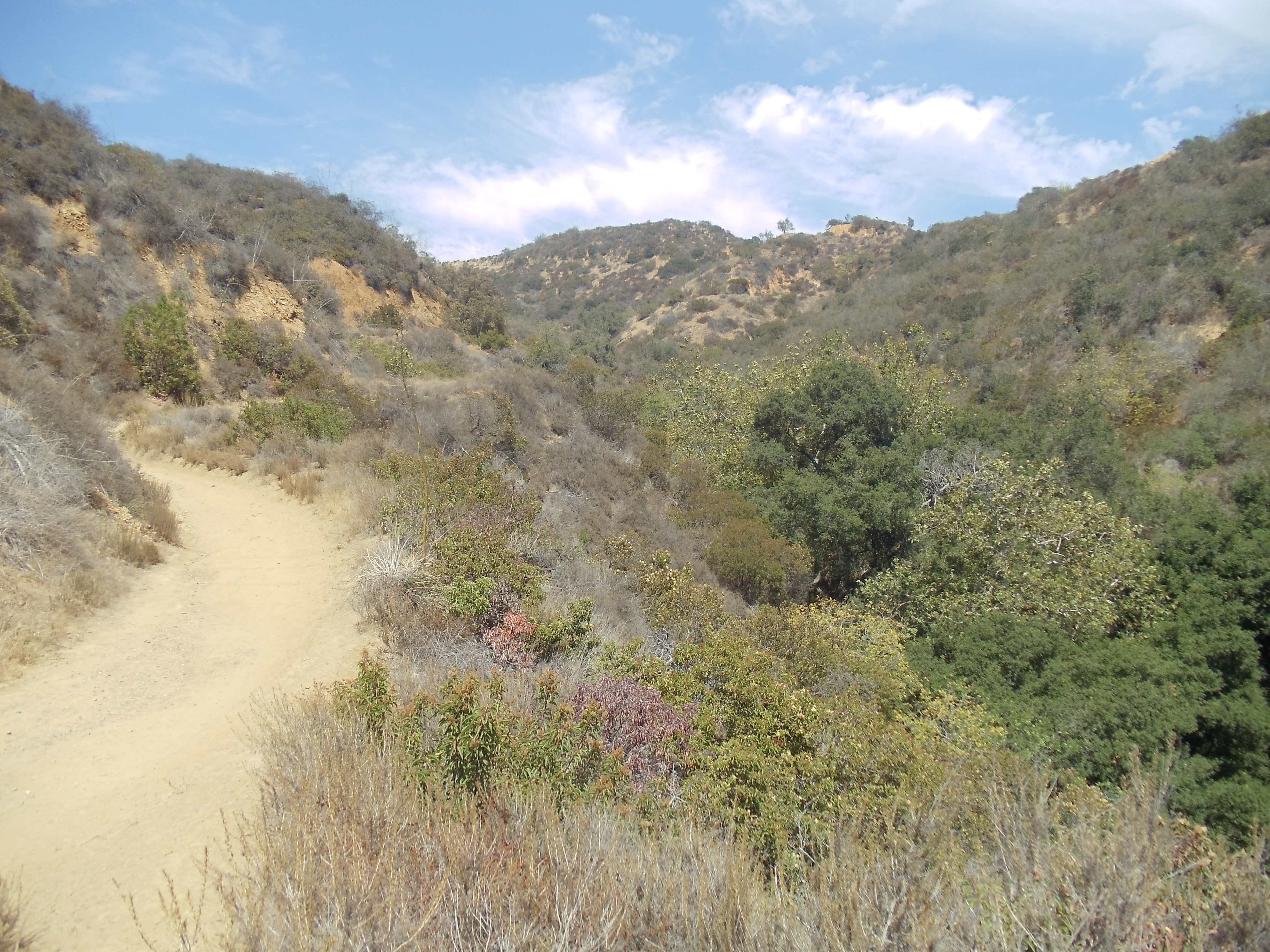 Hastain Trail in Franklin Canyon Park, Los Angeles, California